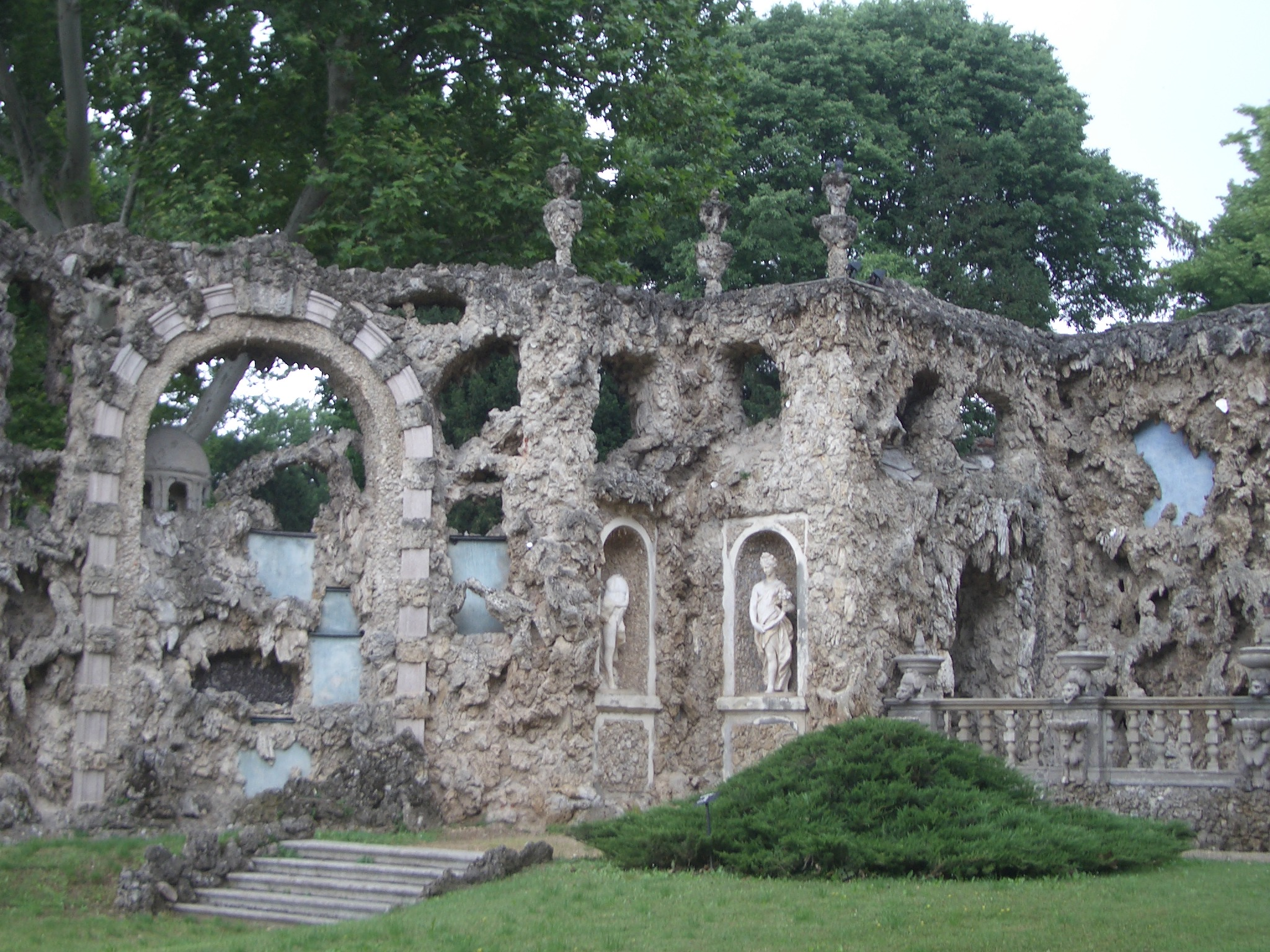 Villa Visconti Borromeo Arese Litta, Lainate (Milano, Italy). Facade of the nymphaeum.